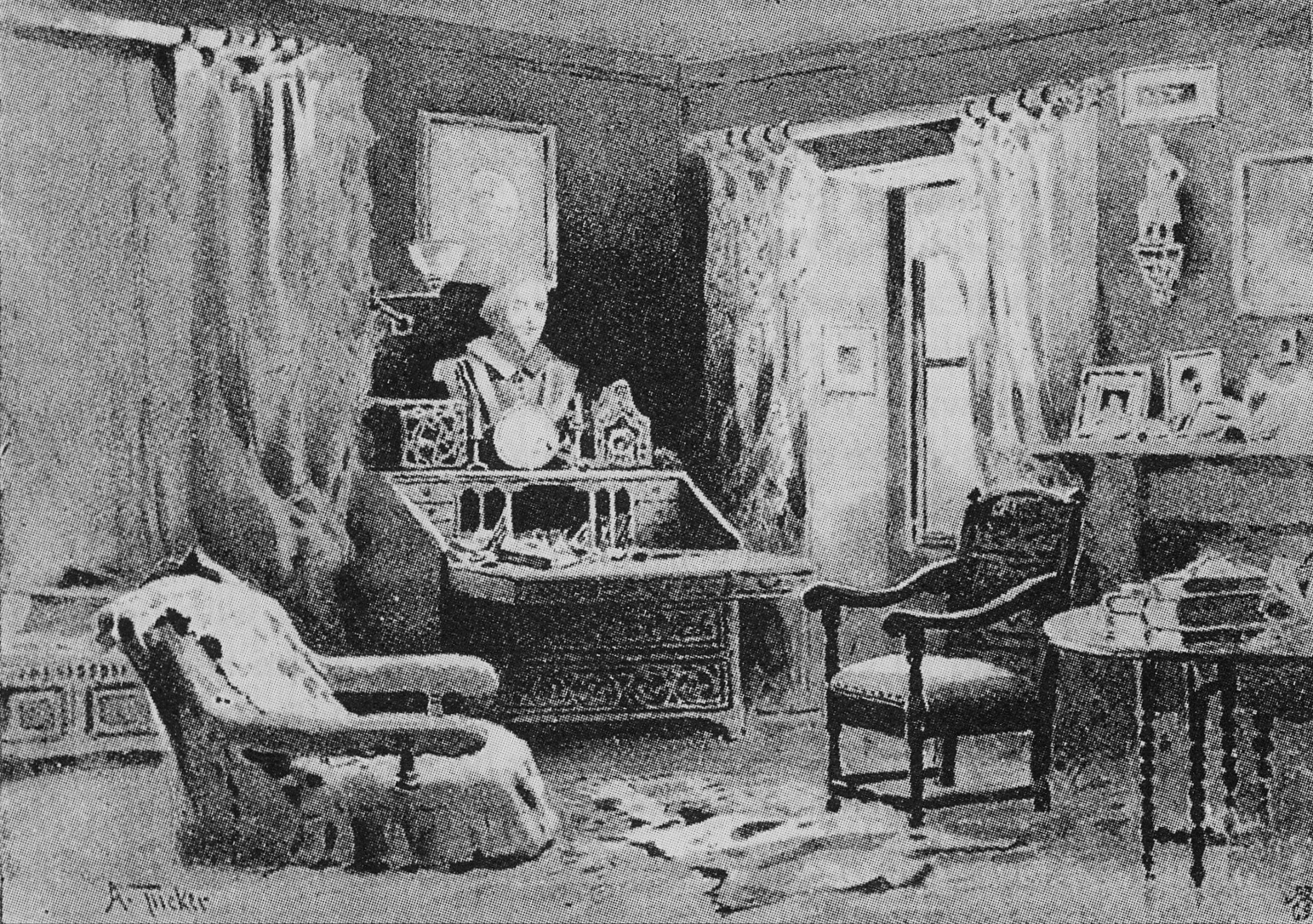 The chair on the left was designed for him by William Morris. Note the bust of Shakespeare on the desk which originally belonged to Rossetti.